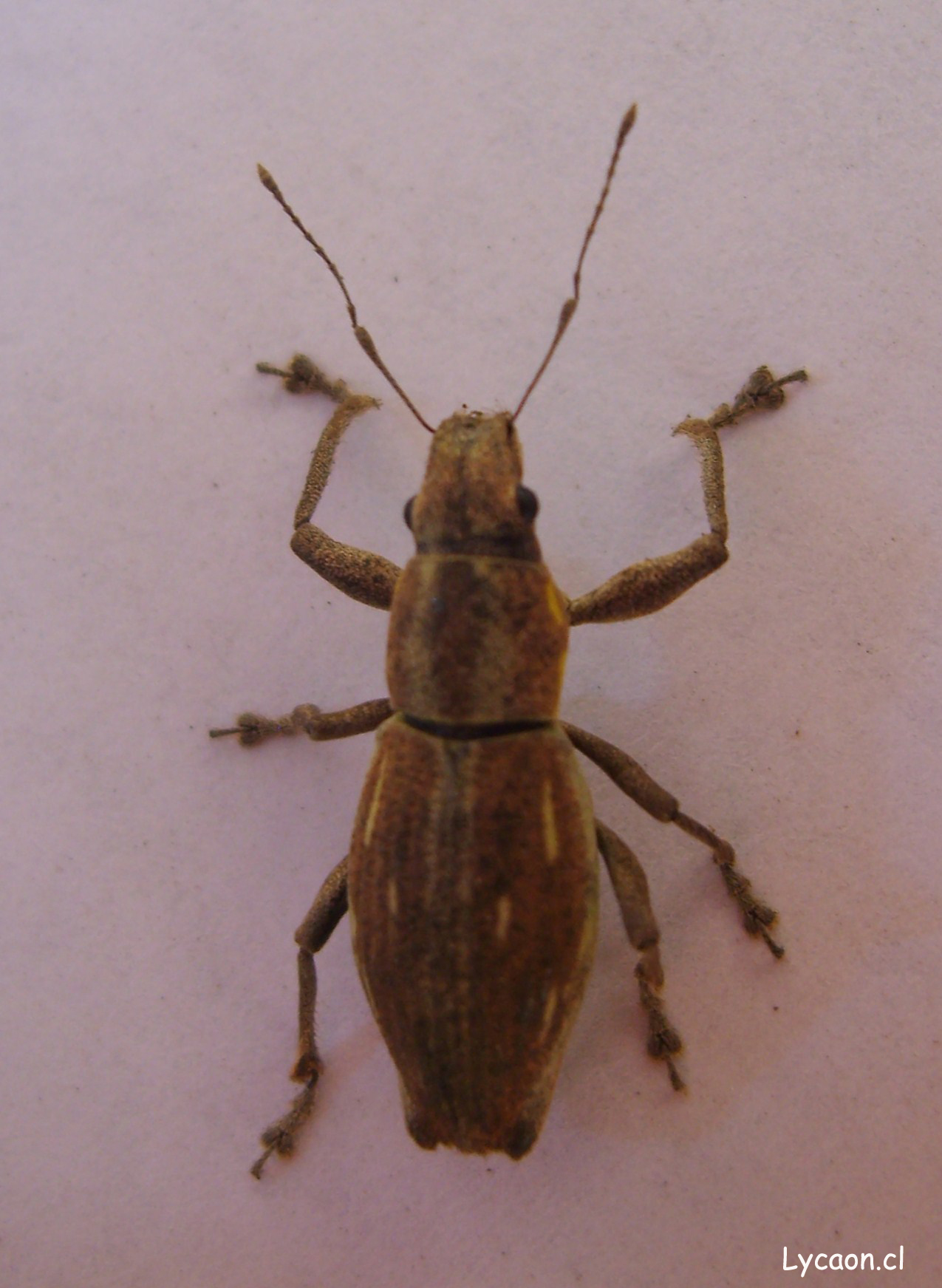 Burrito Naupactus xanthographus